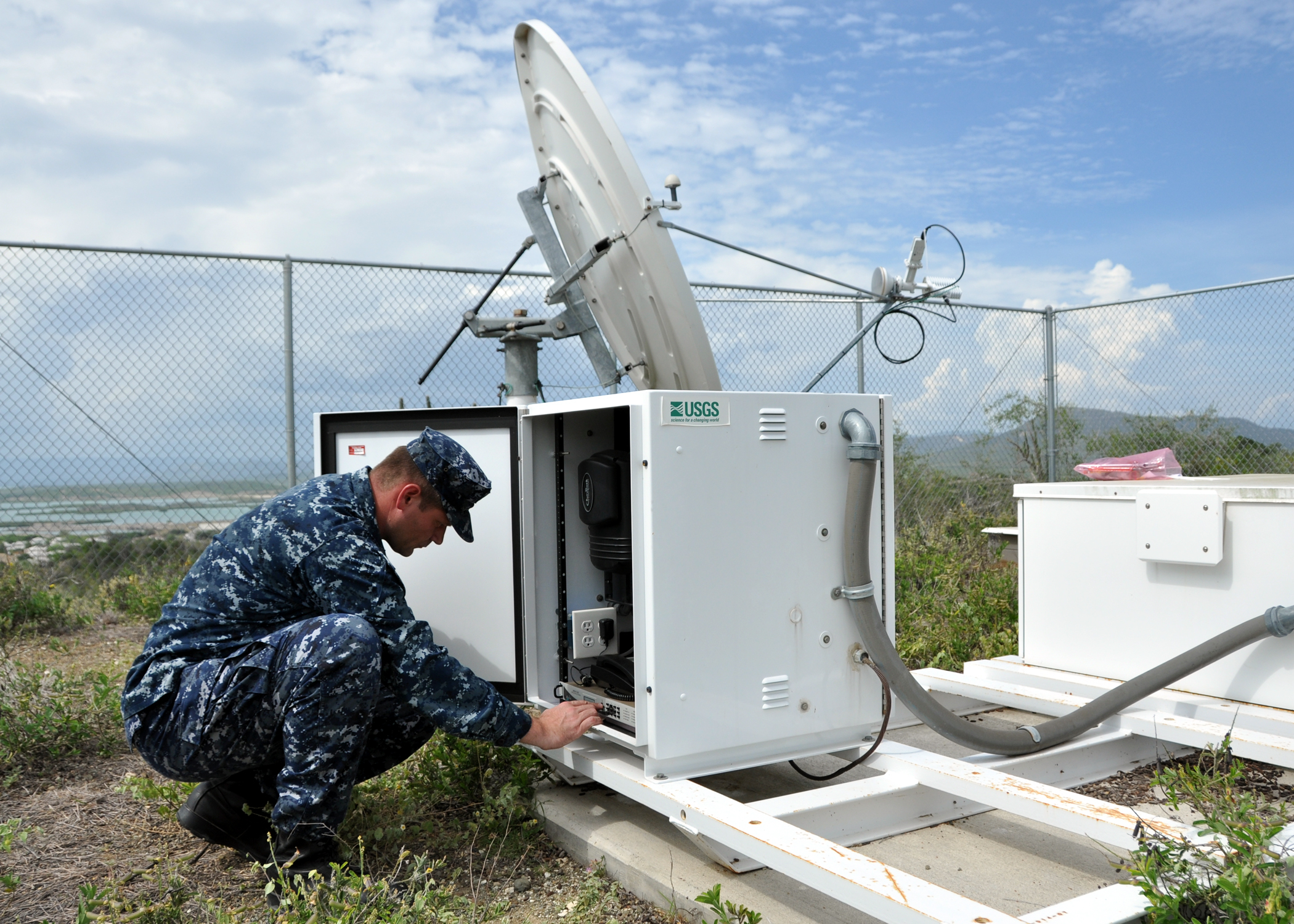 GUANTANAMO BAY, Cuba (May 18, 2010) Electronics Technician 1st Class Michael Schiltz, assigned to Naval Station Guantanamo Bay (GTMO), Cuba, adjusts a modem on a U.S. Geological Survey (USGS) remote seismic station. GTMO has one of nine remote seismic stations in the Caribbean that are used to monitor seismic activity. Schiltz works with the USGS to insure the equipment is maintained and in good repair. (U.S. Navy photo by Chief Mass Communication Specialist Bill Mesta/Released)